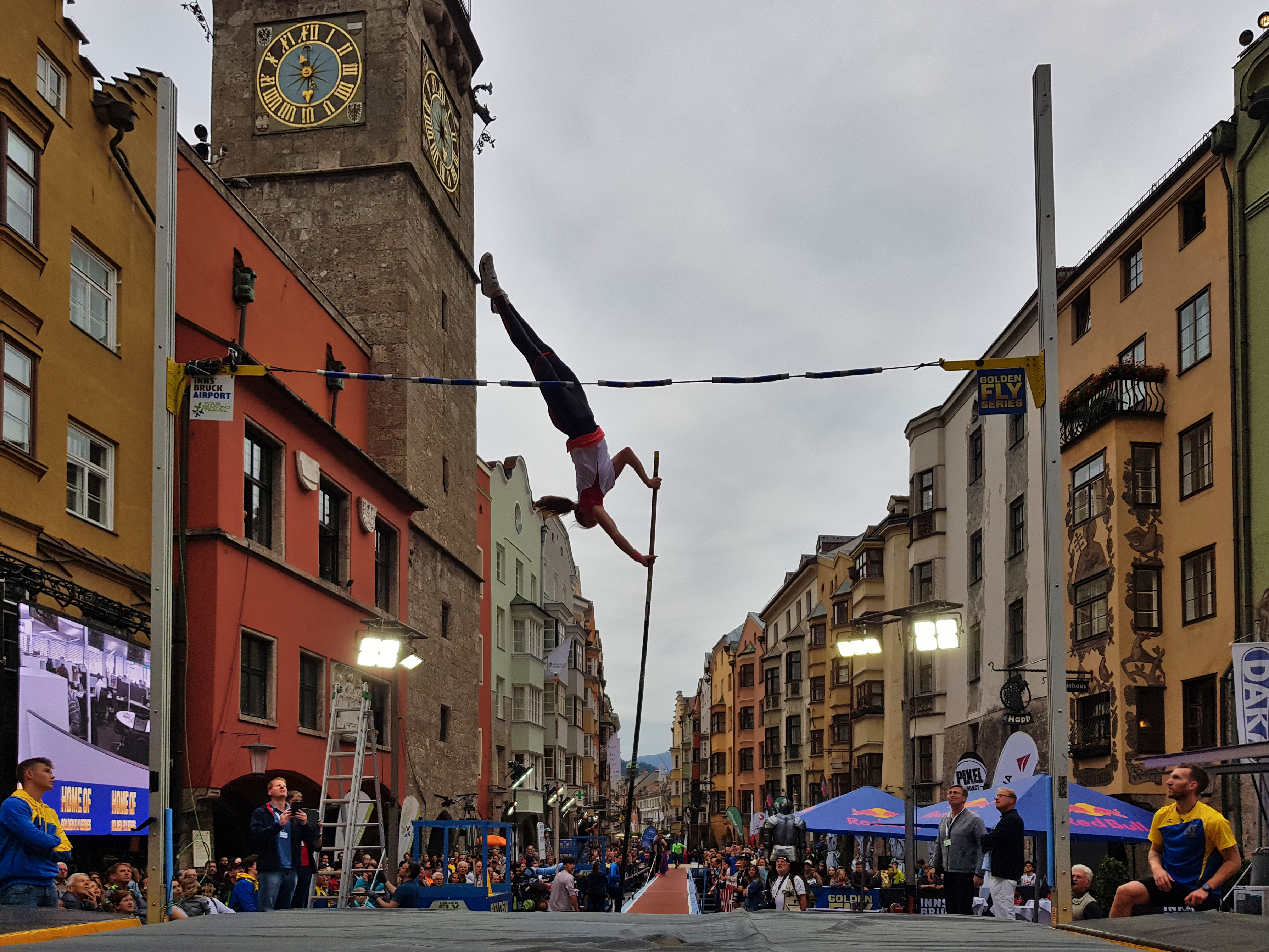 Golden Roof Challenge